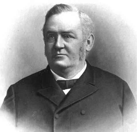 Smedley Darlington (Pennsylvania Congressman)